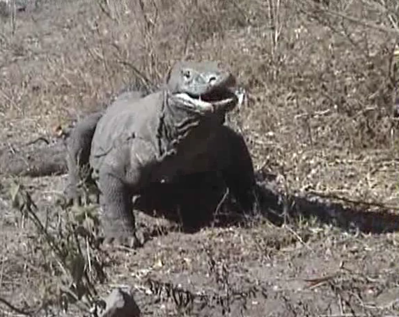 Image extracted from video of Komodo dragon, Varanus komodoensis charging us at the Komodo (island)